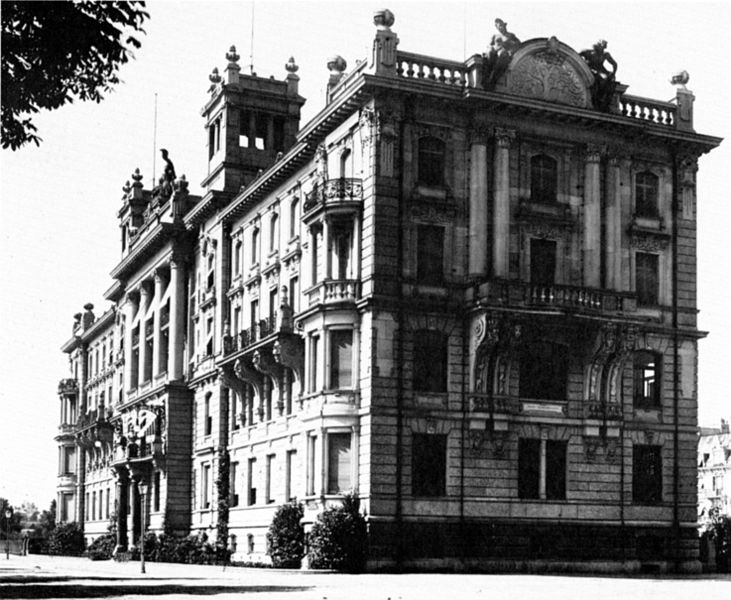 A photograph of Zurich Insurance Group's Head Office from 1905